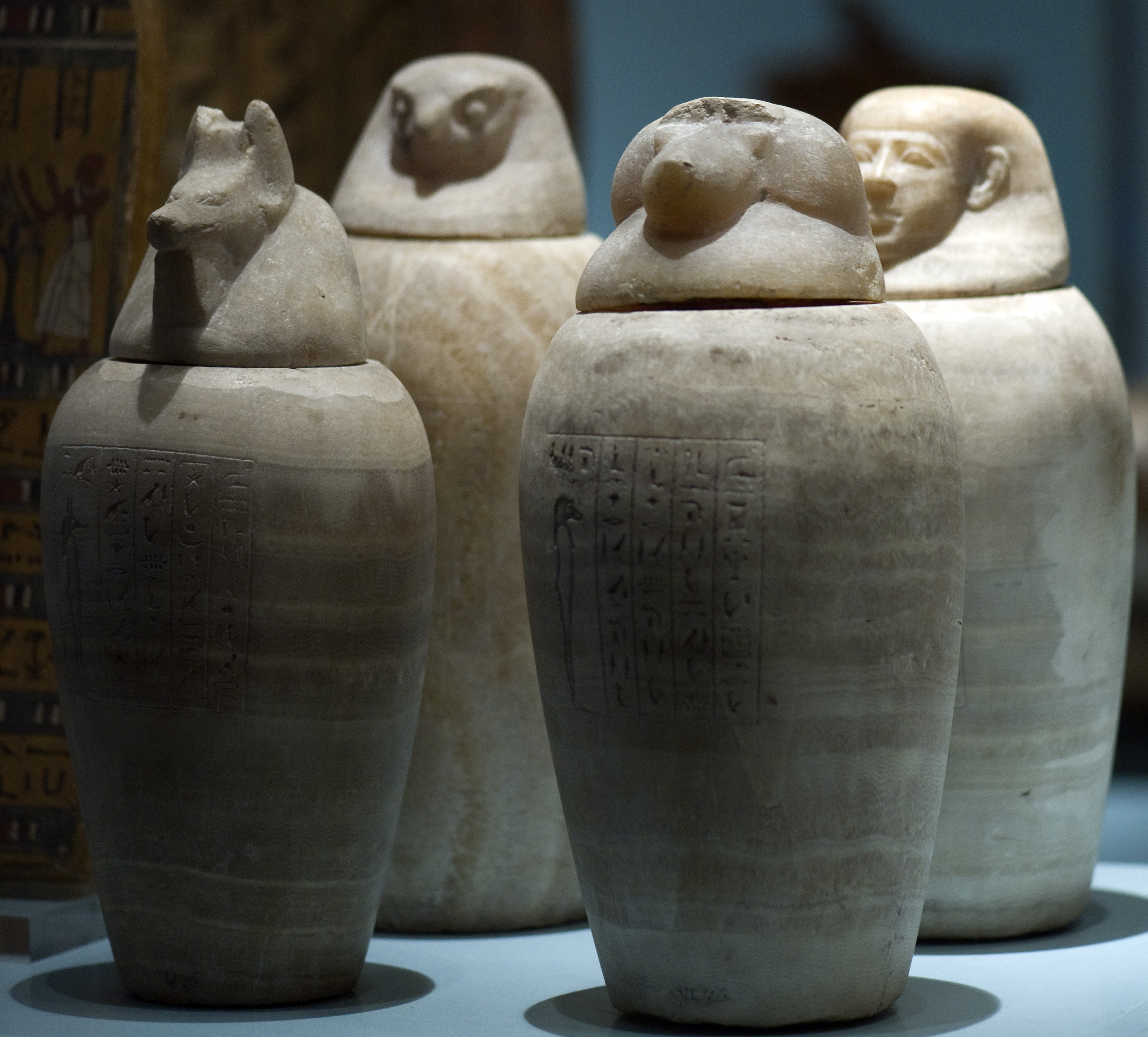 canopic jars of Horwedja (rmo leiden, 26d 664-525bc)